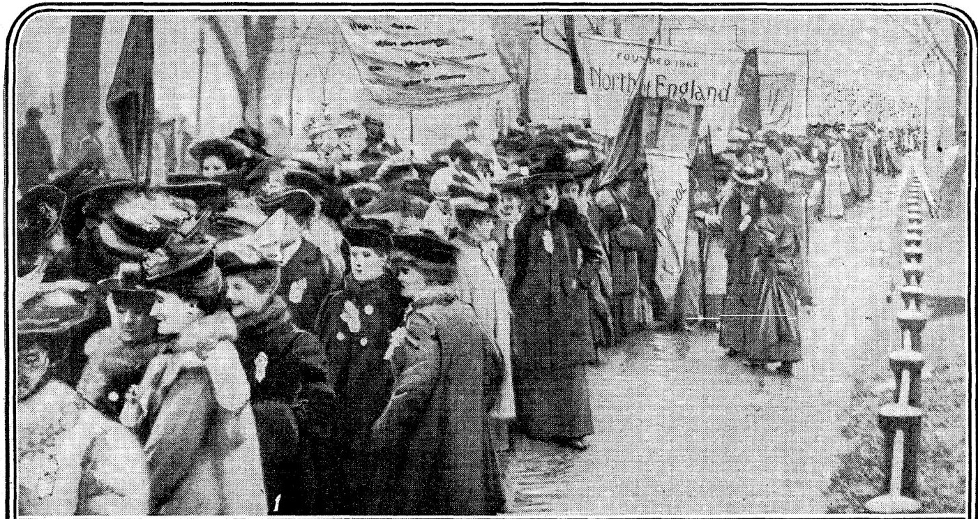 The Mud March, forming up in Hyde-Park